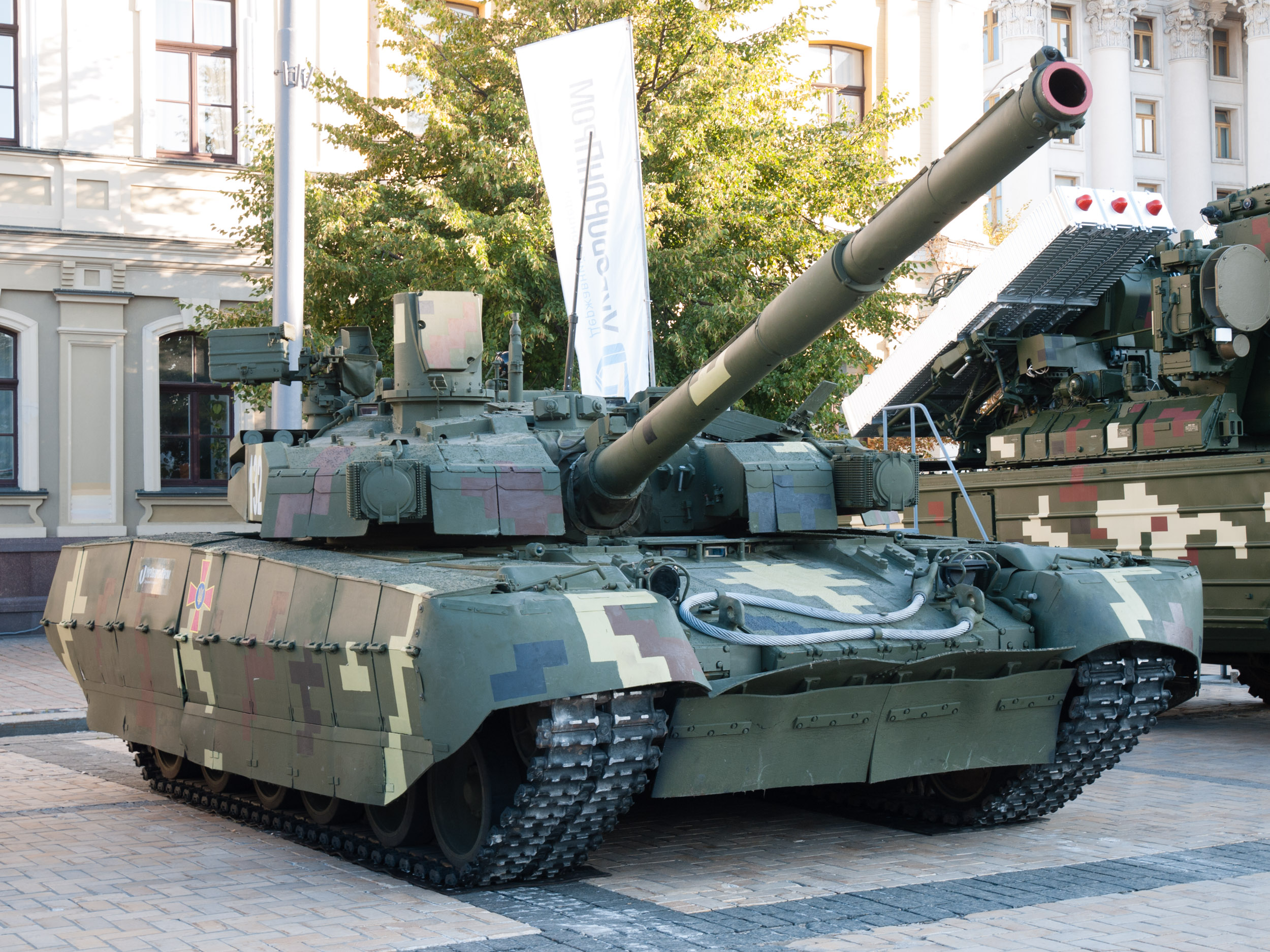 BM Oplot main battle tank, Kyiv, Ukraine, 2018